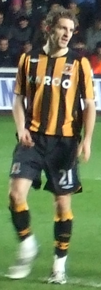 Sam Ricketts